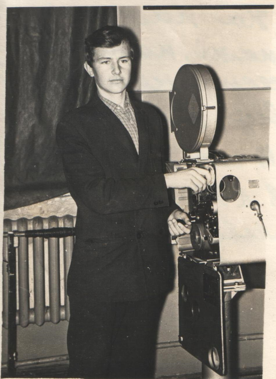 На одному з кіносеансів у новому будинку культури.